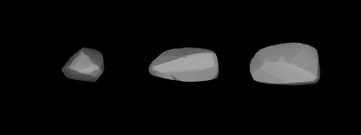 A three-dimensional model of 3722 Urata that was computed using light curve inversion techniques.